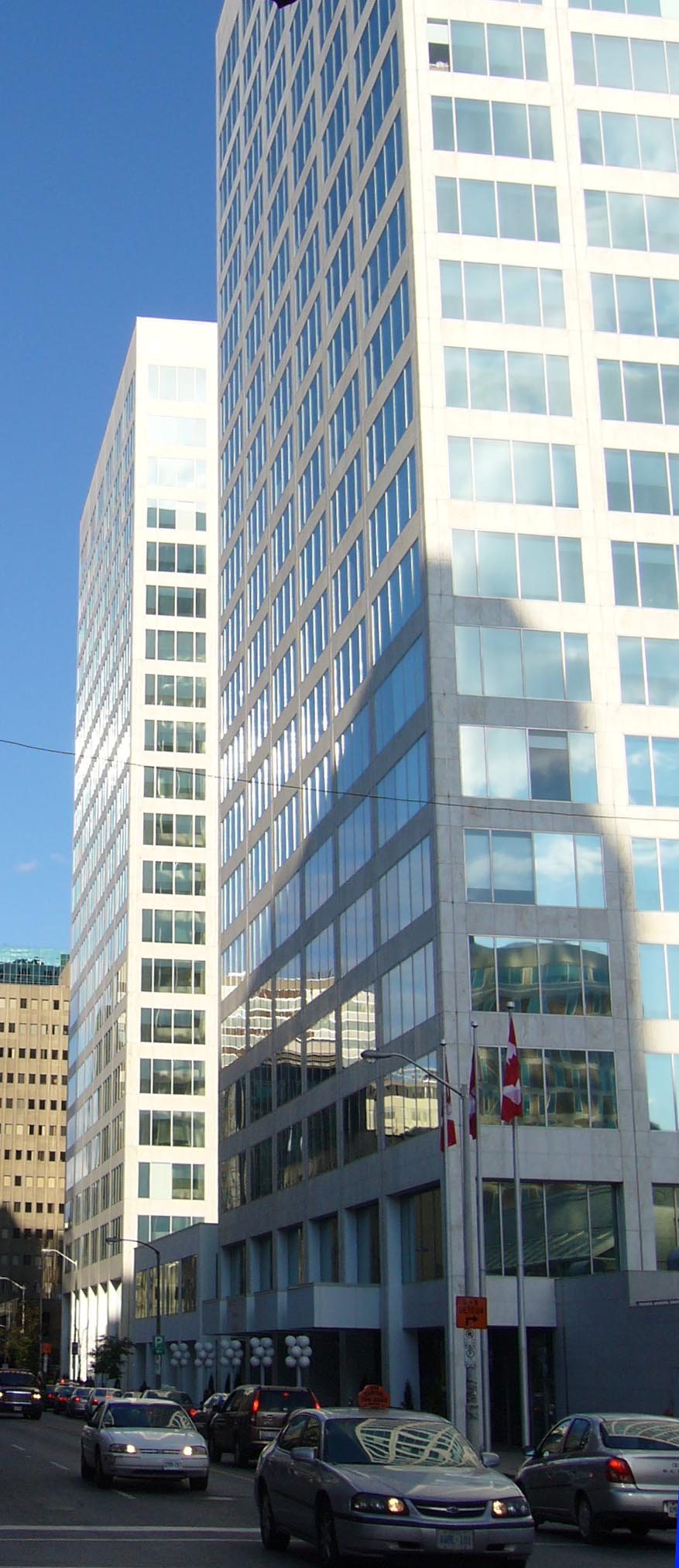 L'Espanade Laurier, Ottawa